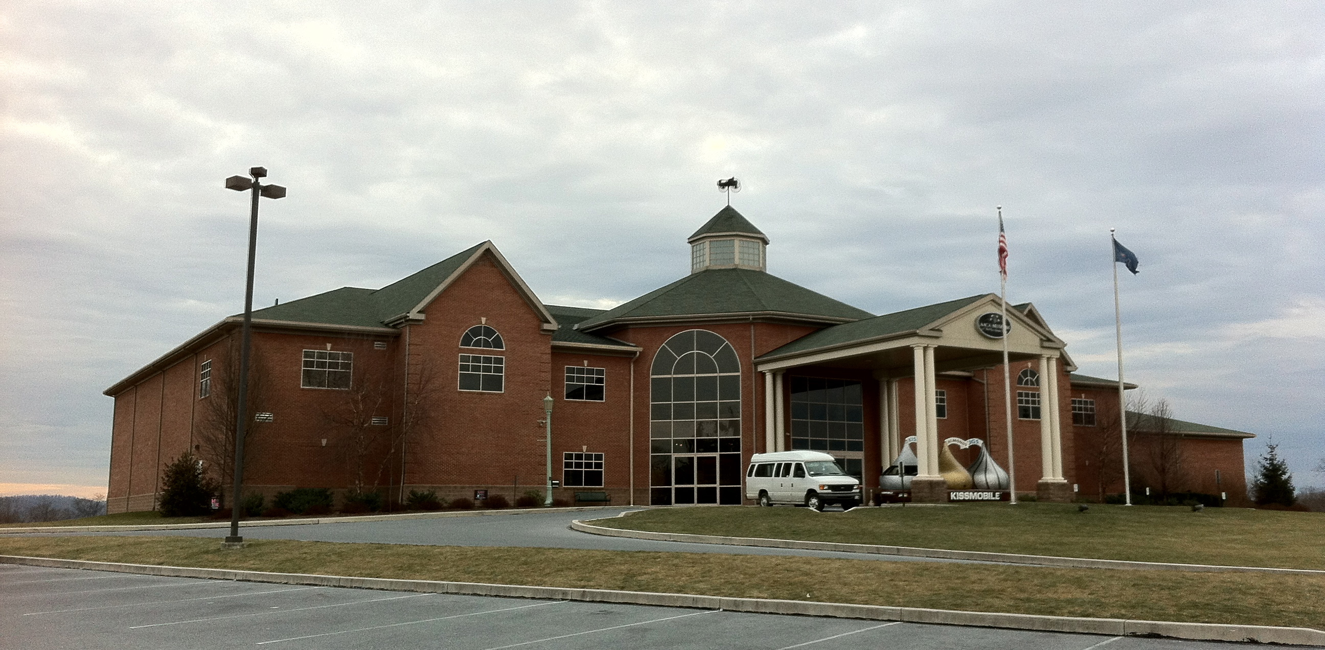 The Antique Automobile Club of America Museum, located in Hershey, Pennsylvania. The AACA is premier car club in the world focused on antique cars, trucks, motorcycles, and their history.